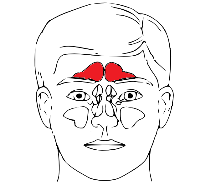 Paranasal sinuses